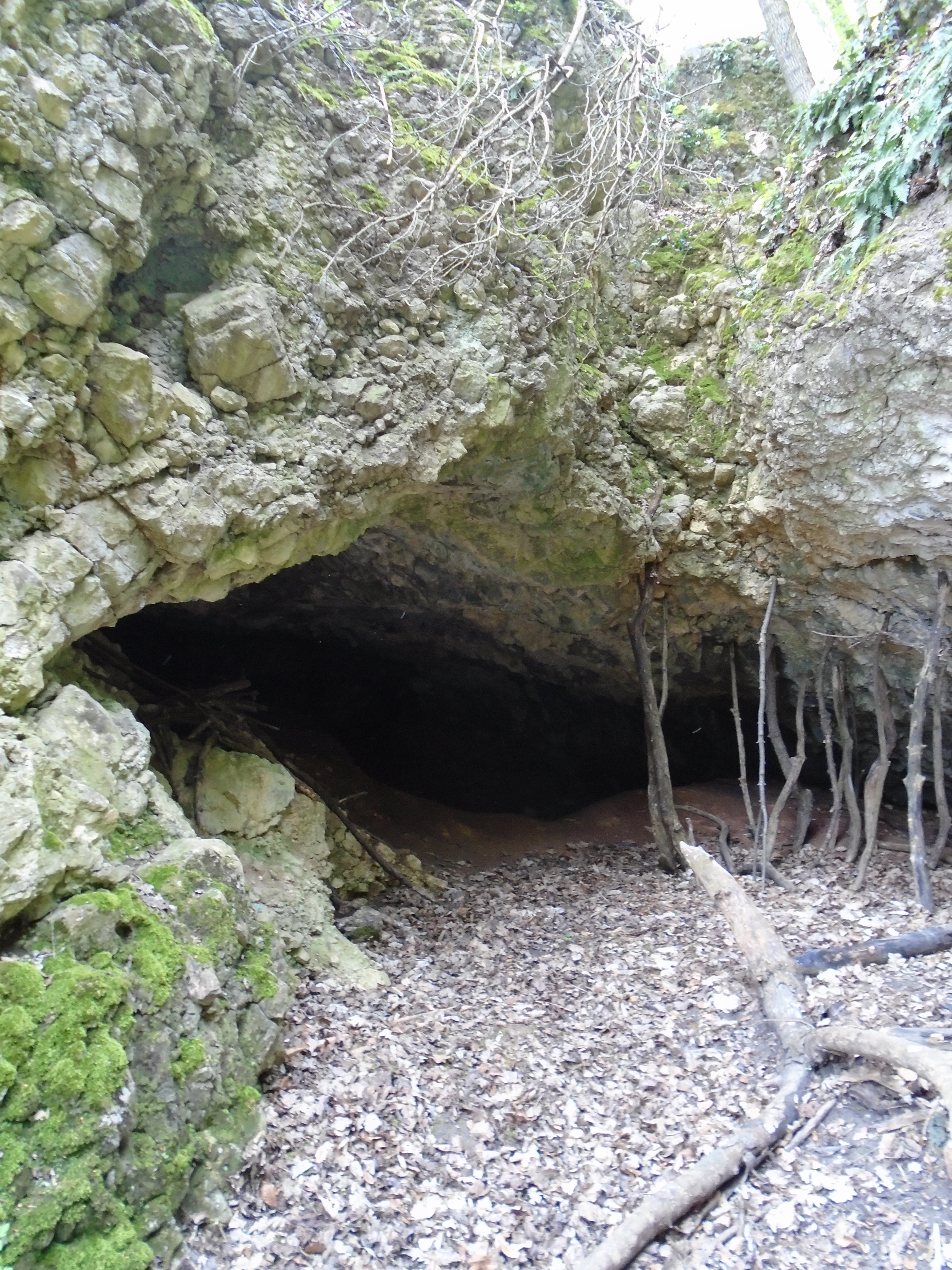 János Cave entrance.